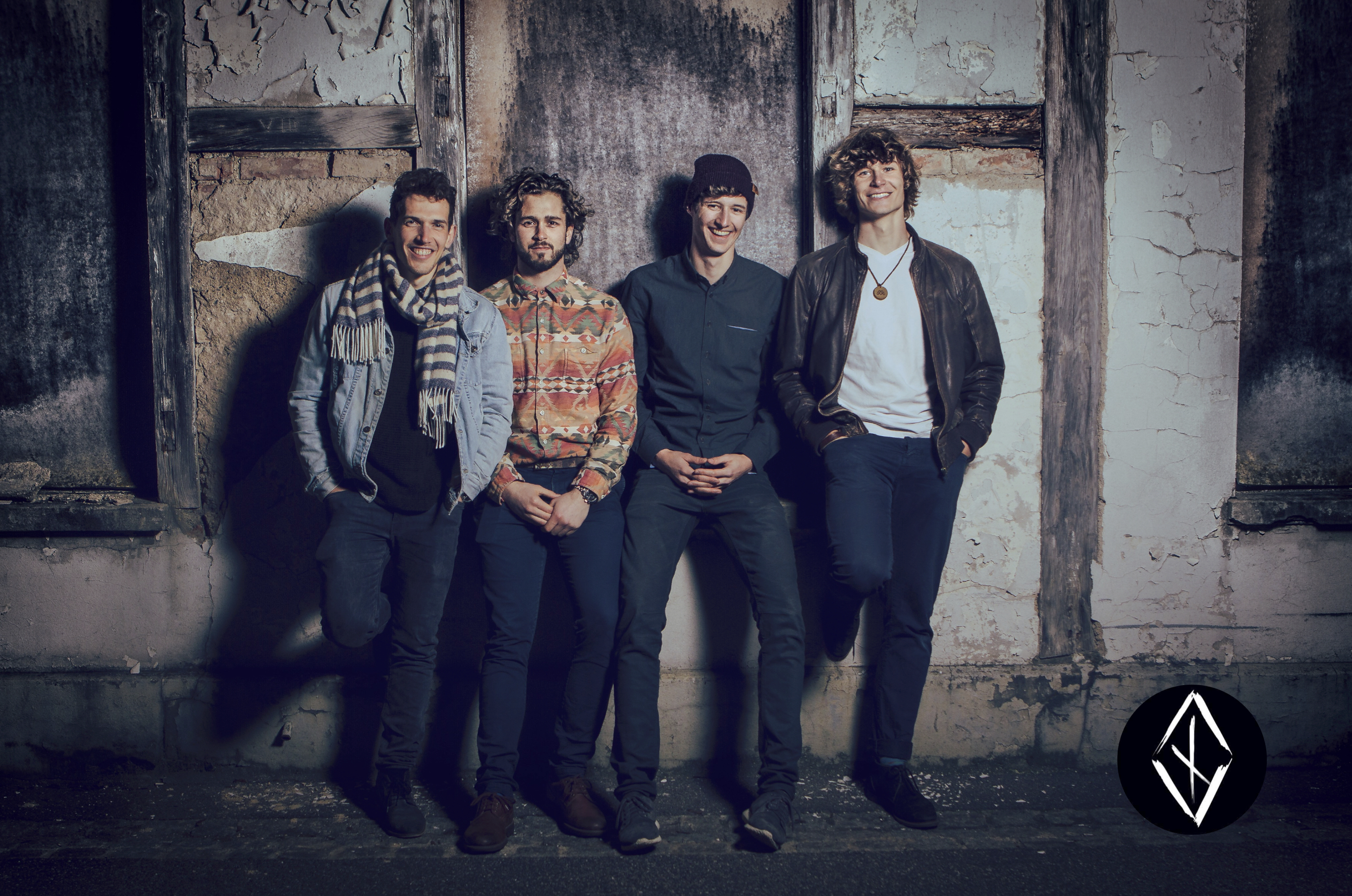 bandfoto with logo